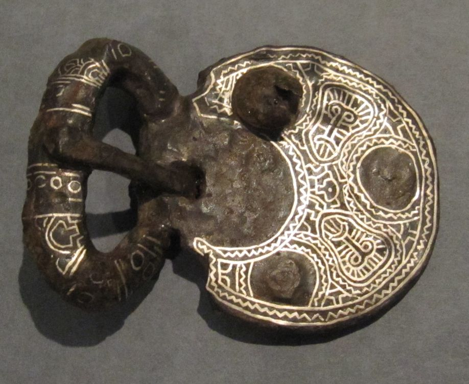 Burial object from an early medieval cemetery at Bergsonstraße in Munich-Aubing, Germany (5th - 7th century AD). Photographed at an exhibition of the "Förderverein 1000 Jahre Aubing e.V." on the occasion of the 1000-year celebrations of Aubing in April 2010. Belt buckle showing faces, iron with silver inlay